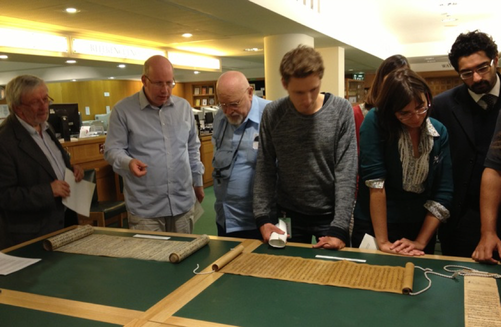 Manichaean scholars examining two Chinese scrolls: on the left the Manichaean Hymn Scroll (Or.8210/S.2659) and on the right the Compendium of the teachings of Mani, the Buddha of Light (Or.8210/S.3969), dated AD 731. British Library, September 2013.